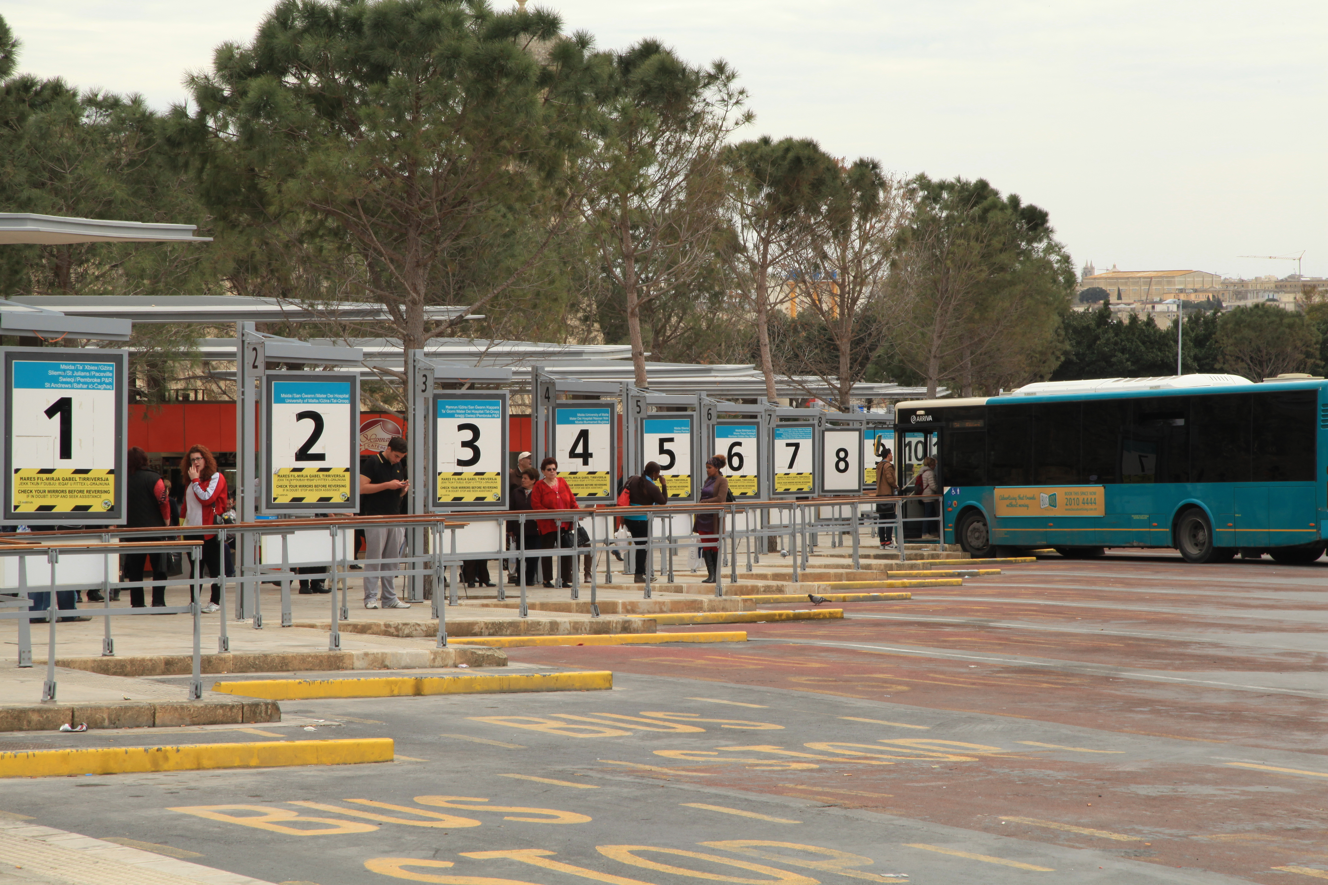 City Gate Bus Station, Vjal Nelson in Valletta, Malta